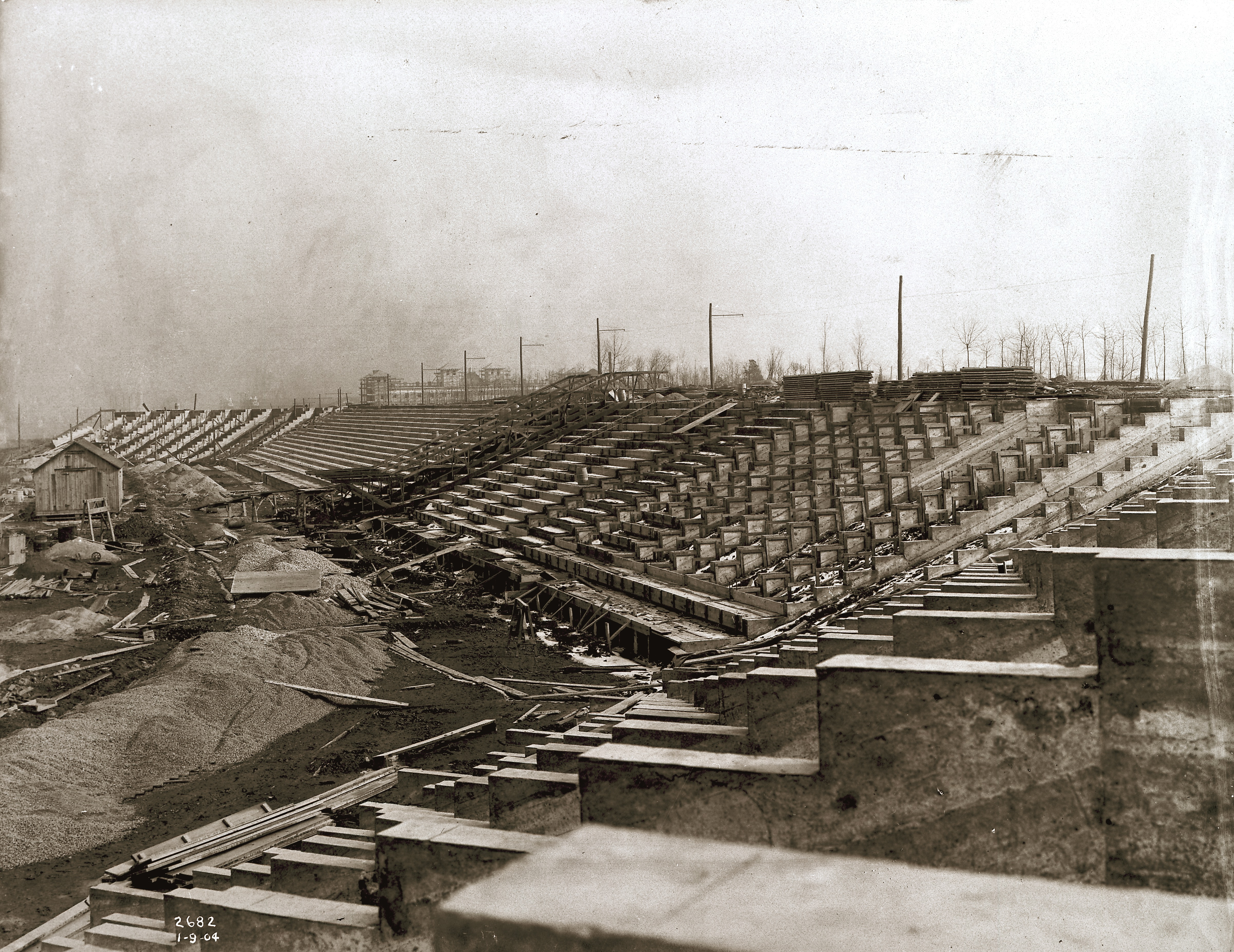 Title: Construction of stadium built for the 1904 Olympics, 9 January 1904.